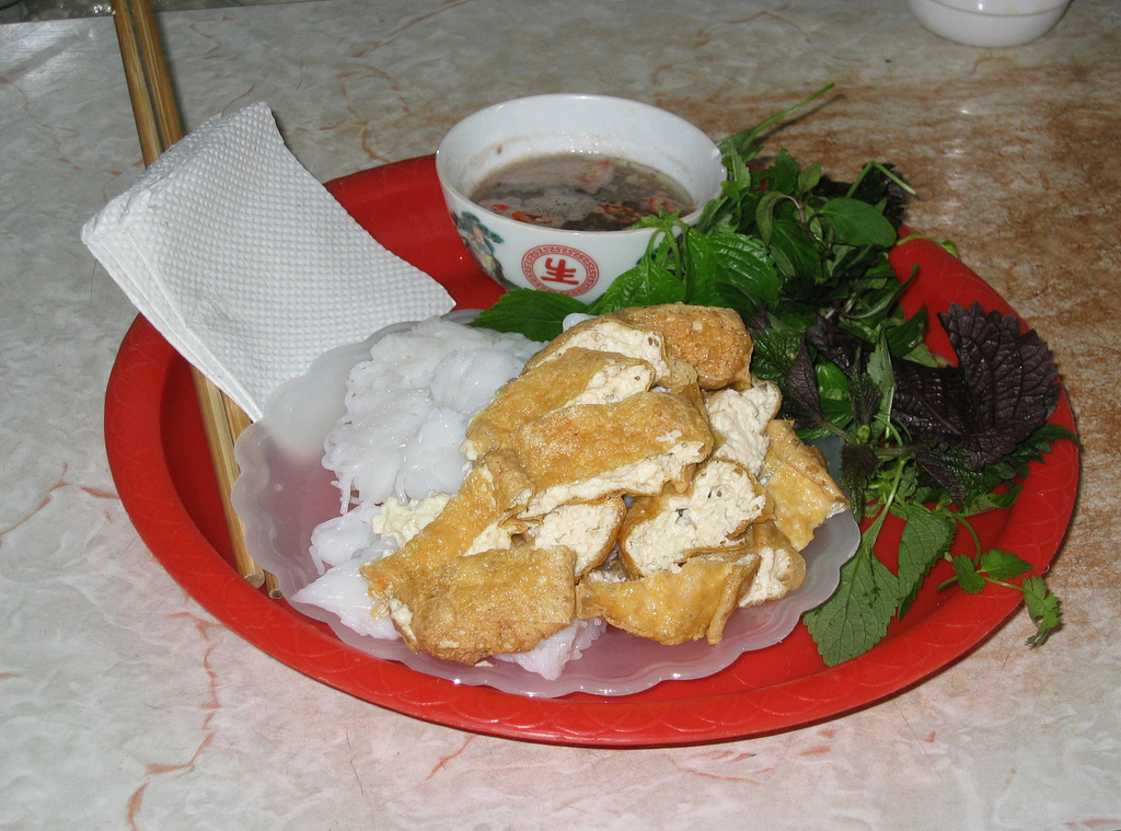 Pressed vermicelli noodles with fried tofu served with shrimp paste